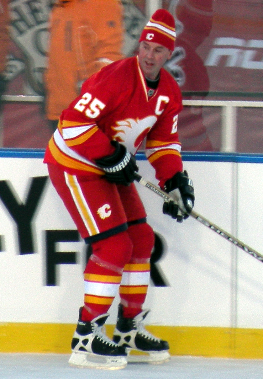 Former NHL player Joe Nieuwendyk during the alumni game at the 2011 Heritage Classic in Calgary.